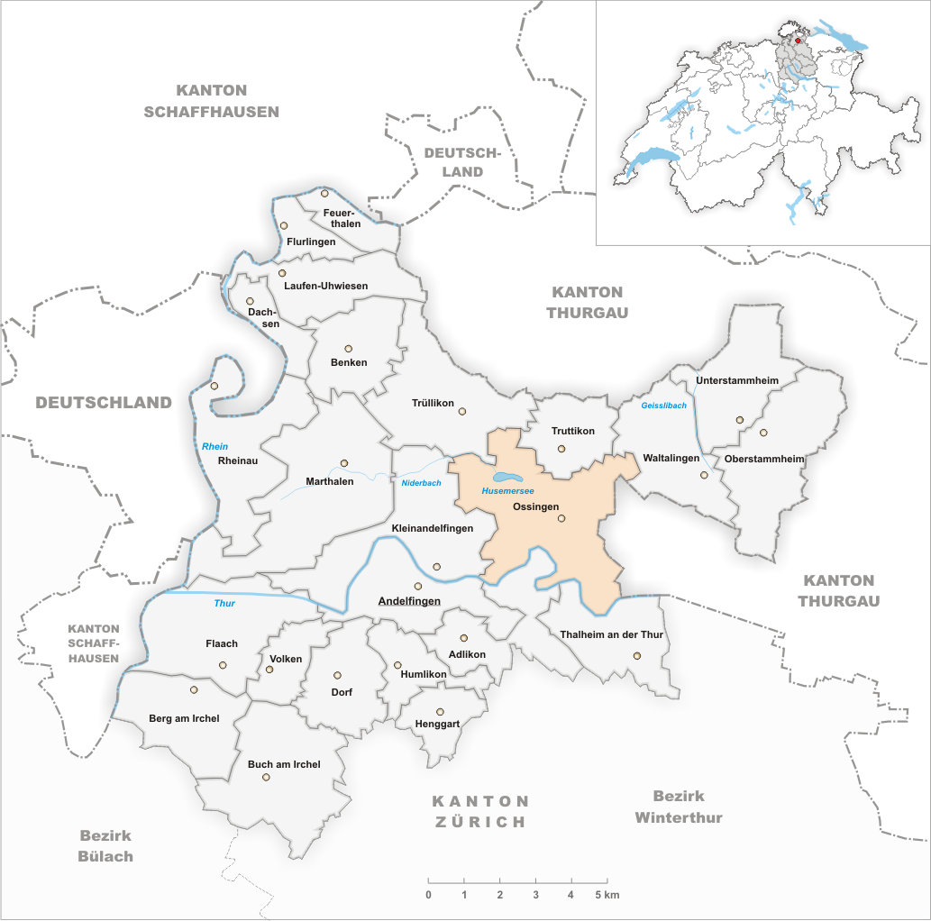 Municipality Ossingen